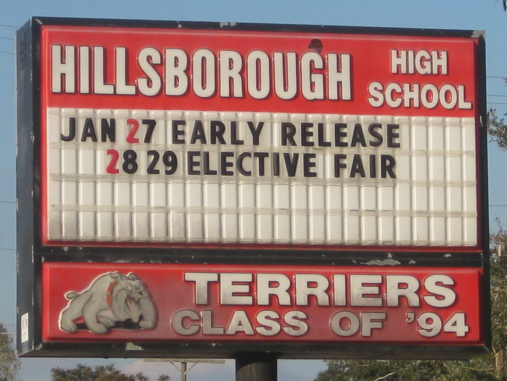 This sign on the southeast corner of campus at Hillsborough High School was erected by the Class of 1994. The Tampa, Florida school is the home of the Terriers.